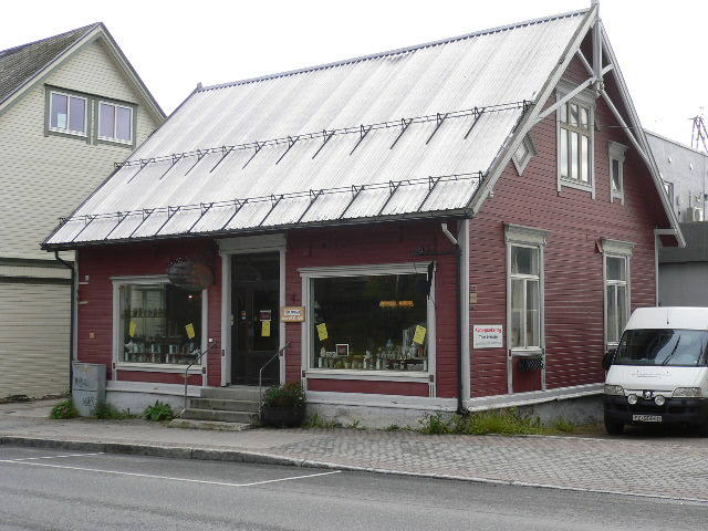 Storgata 15 in Harstad, Norway.